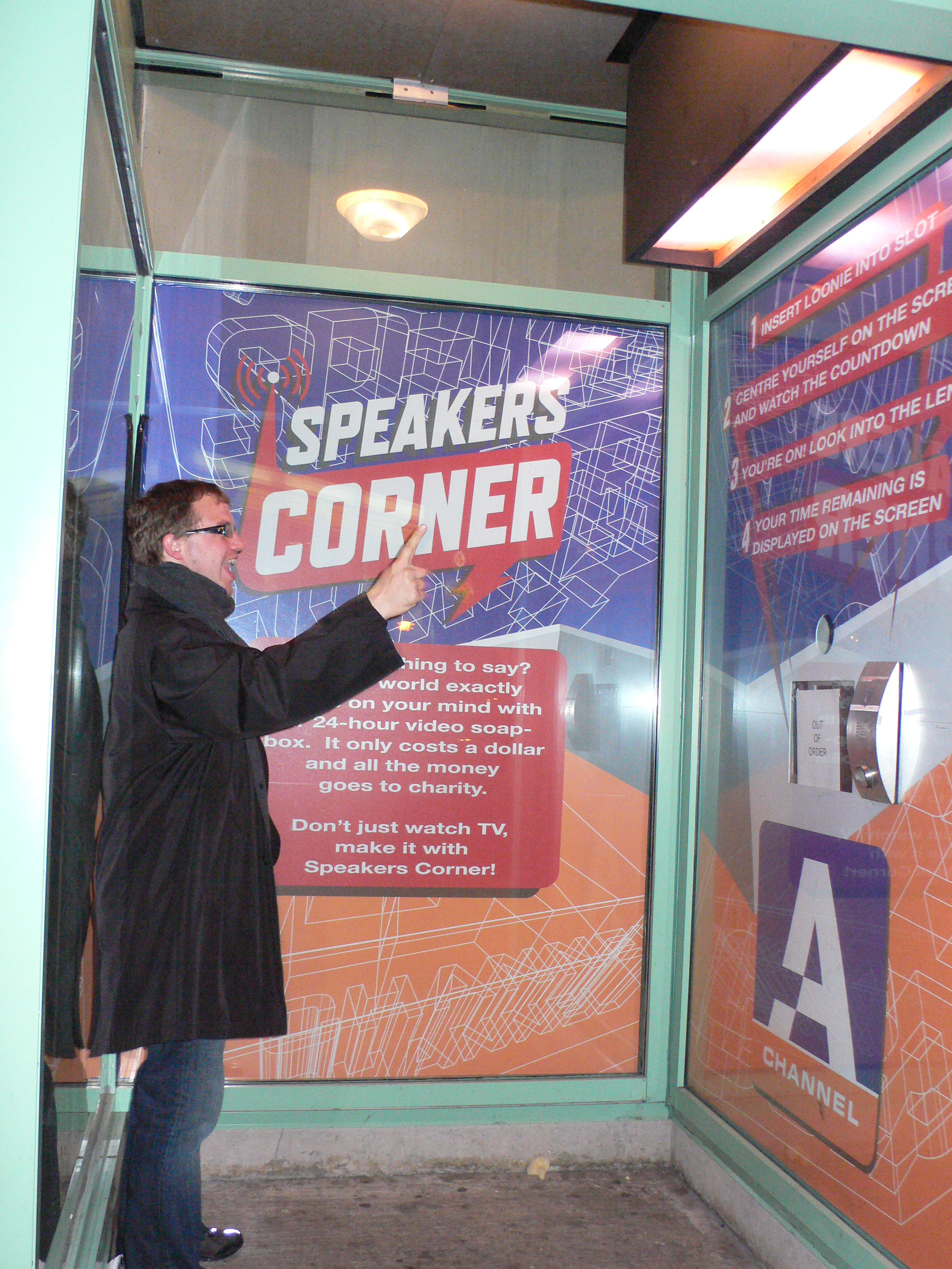 Speaker's corner (Ottawa City, Ontario, Canada).